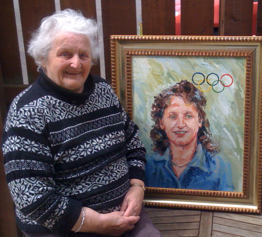 Photo of Portrait by Kristina Macaulay of Catherine Brown (Gibson) 1948 Olympic Medalist